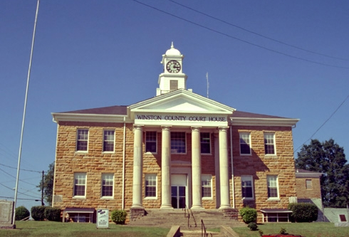 Winston County Courthouse, Double Springs, Alabama.